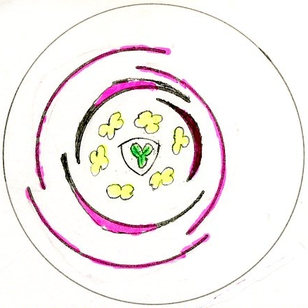 Floral diagram "Galanthus nivalis"